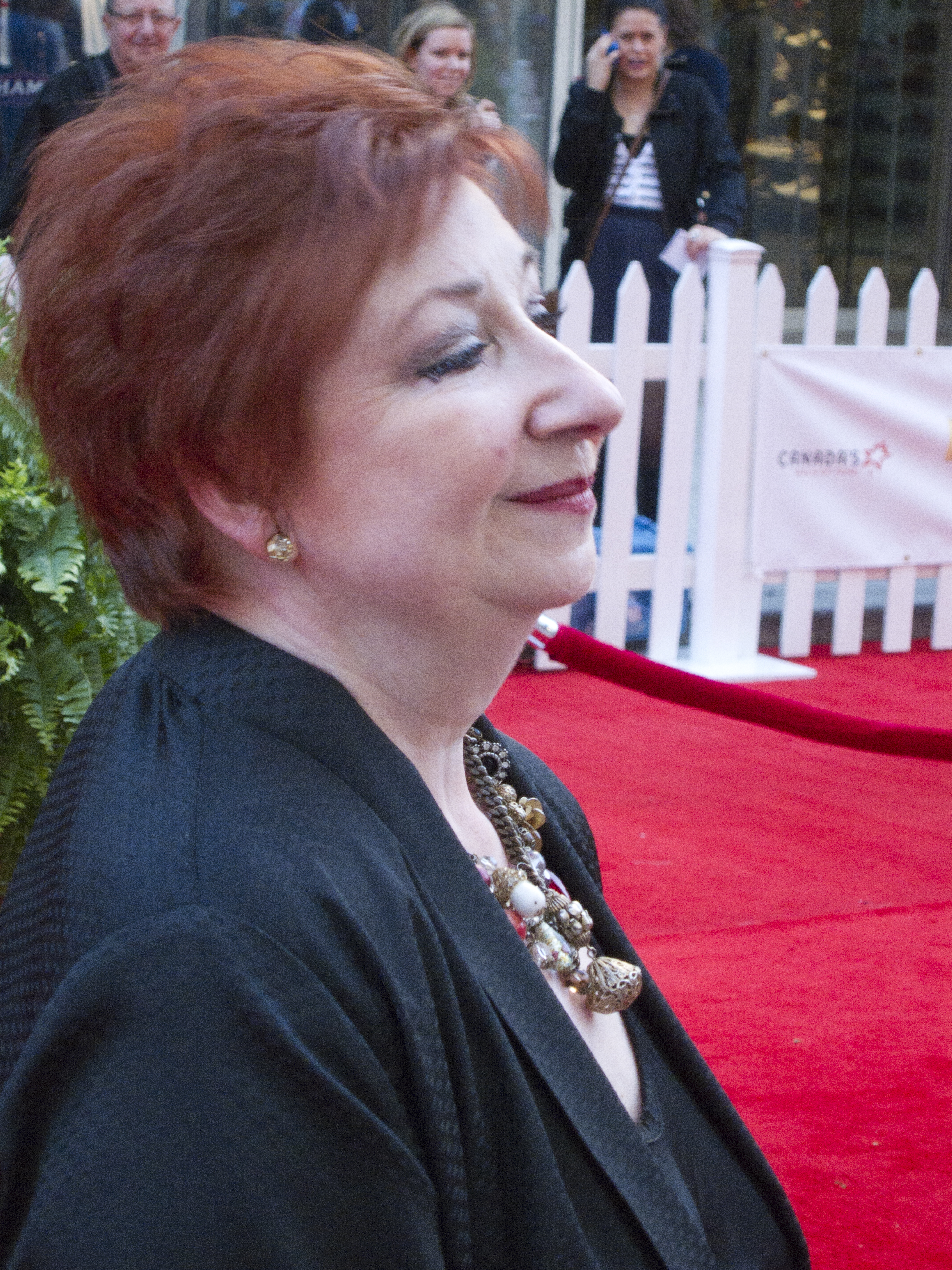 Comedian Luba Goy at the induction ceremony for Canada's Walk of Fame in October 2010